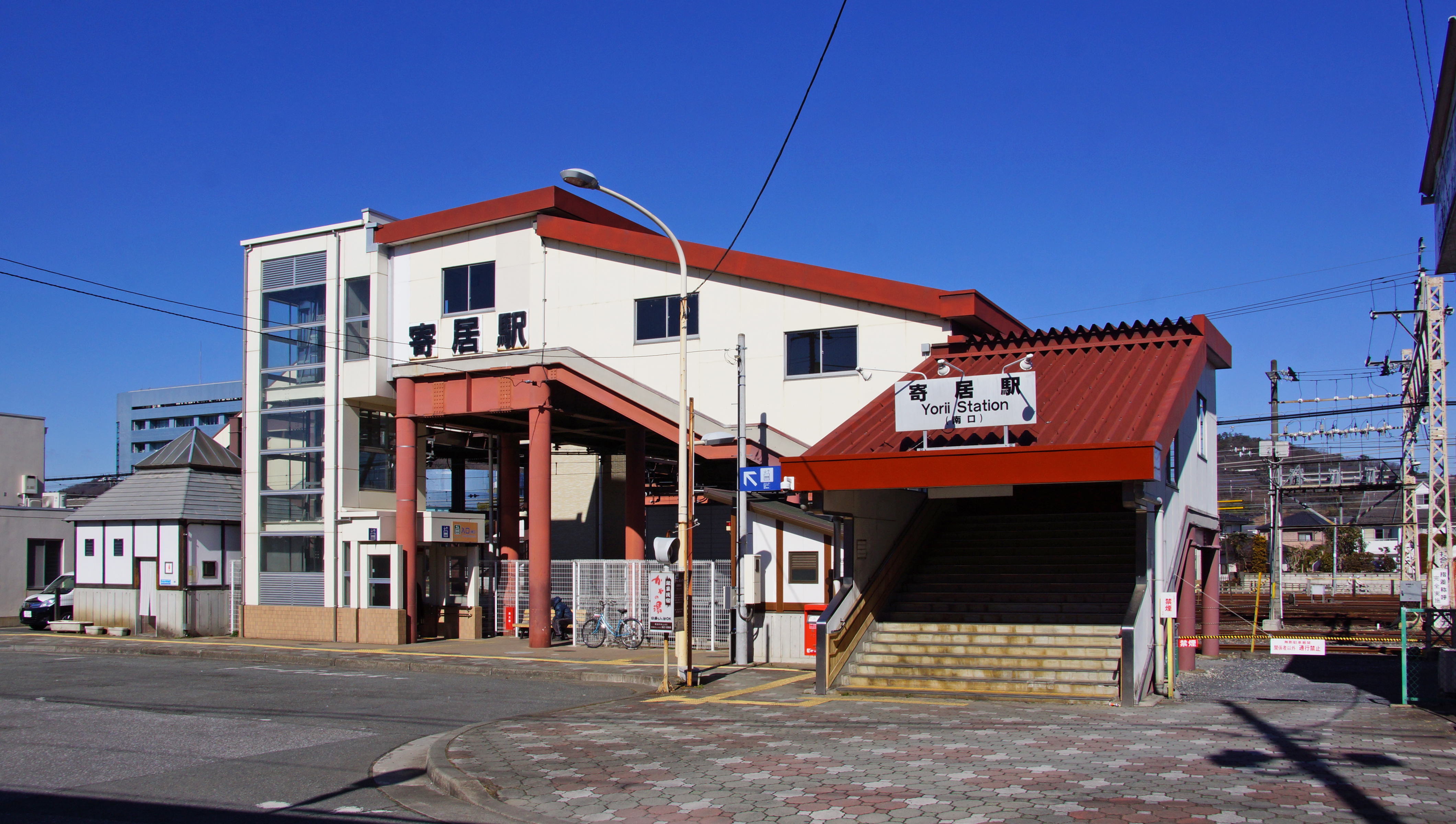 The south entrance to Yorii Station in Saitama Prefecture, Japan